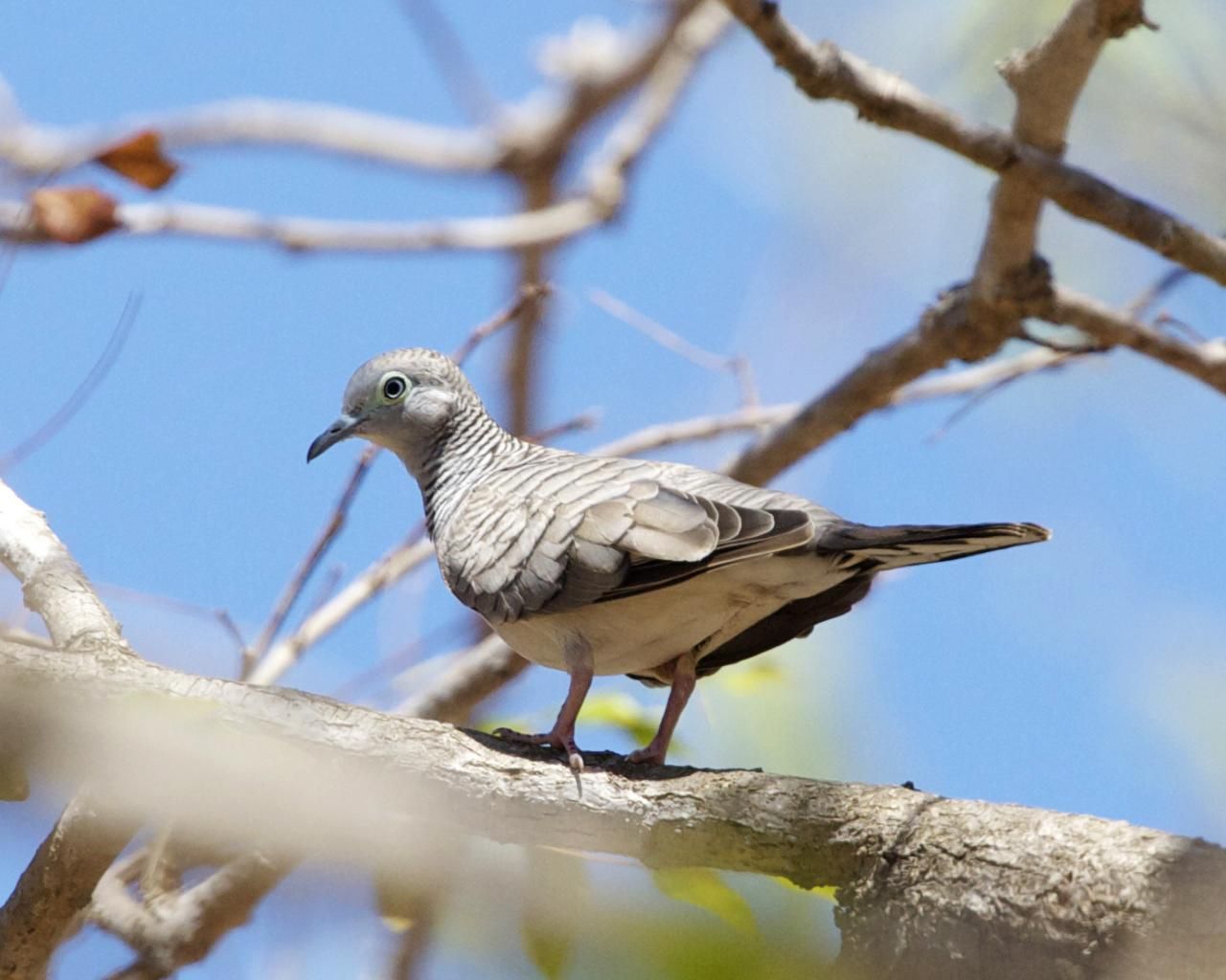 Peaceful Dove Geopelia placida nominate race Darwin, Northern Territory, Australia August 2010 690V0569